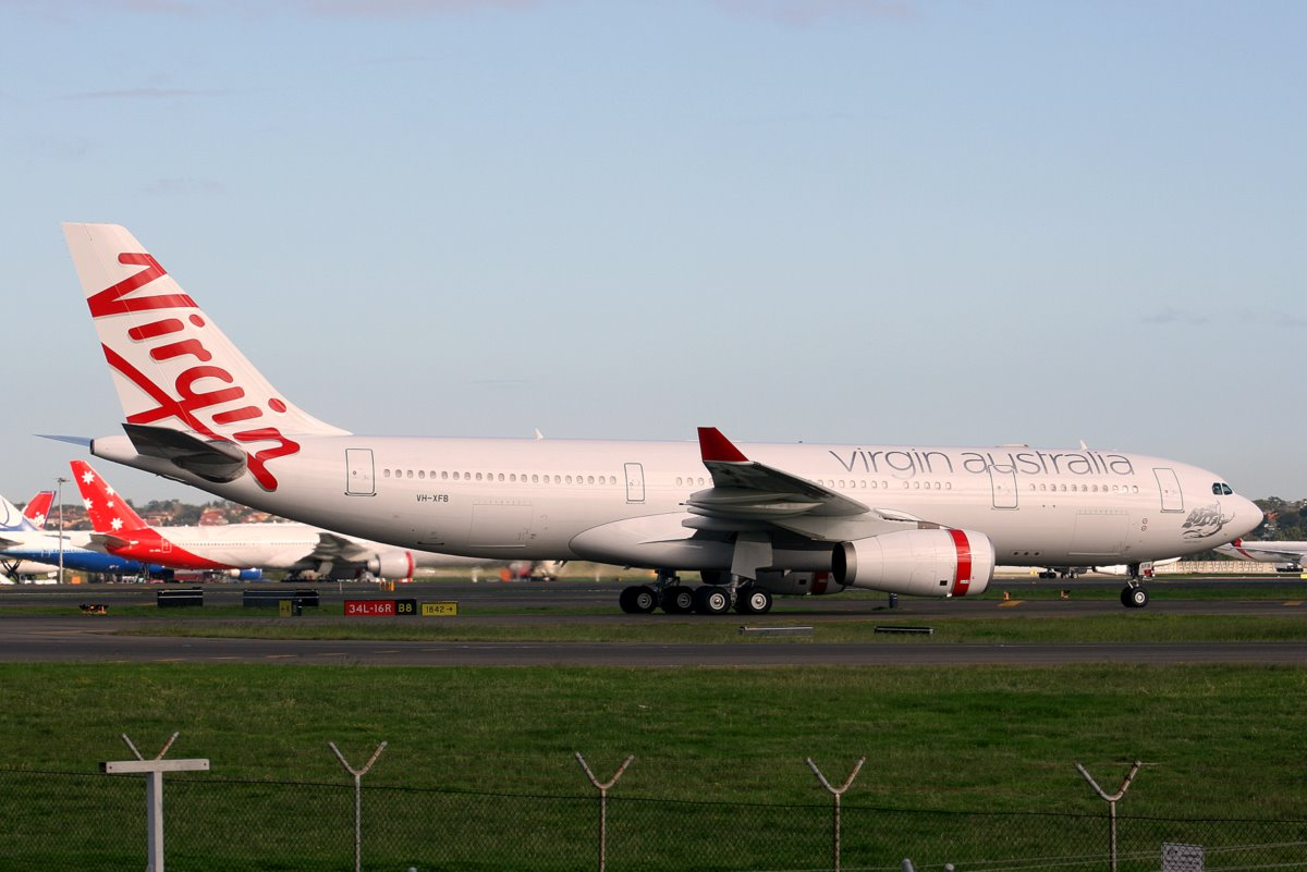 The second Airbus A330 to be delivered to Virgin Australia was the first to wear the airline's new colour scheme. Named Cable Beach, it is depicted here at Sydney Airport immediately after landing for presentation at the airline's rebranding launch on 4 May 2011. Digital photo taken by YSSYguy on 4 May 2011 and uploaded for use in the Virgin Australia article. Image edited using Picasa software. YSSYguy (talk) 06:43, 5 May 2011 (UTC)